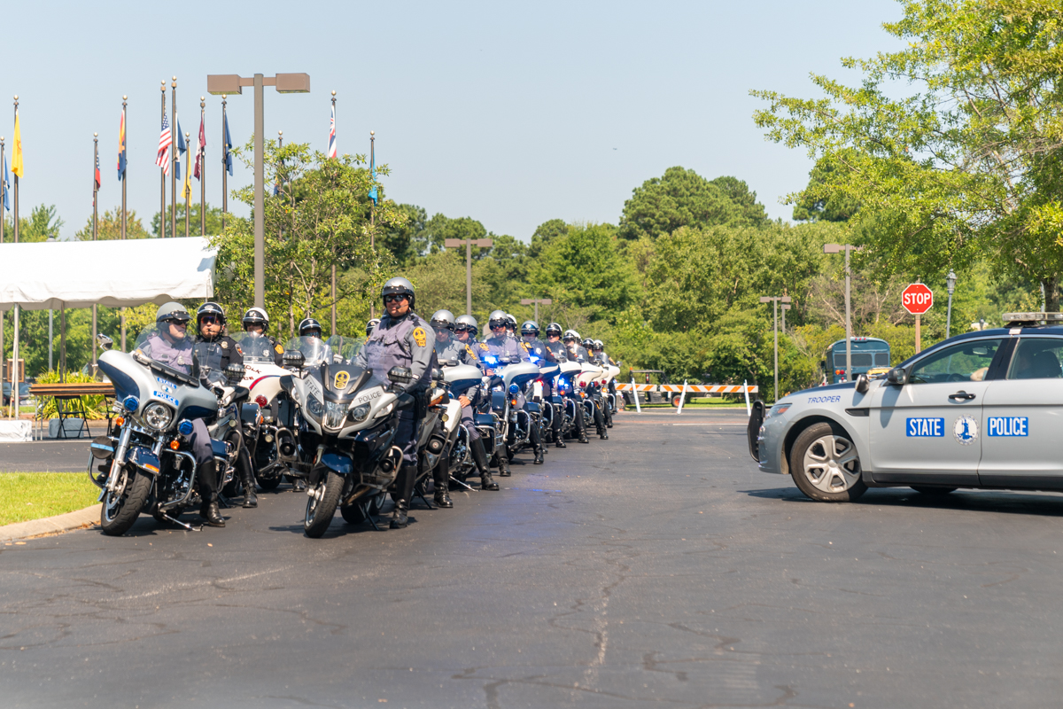 Law enforcement officials are seen en route to the Jamestown Settlement Museum where President Donald J. Trump will attend the 400th Anniversary of the First Representative Legislative Assembly Tuesday, July 30, 2019, in Williamsburg, Va. (Official White House Photo by Shealah Craighead)